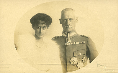 Rupprecht, Crown Prince of Bavaria, with his future wife the Princess Antonia of Luxembourg.